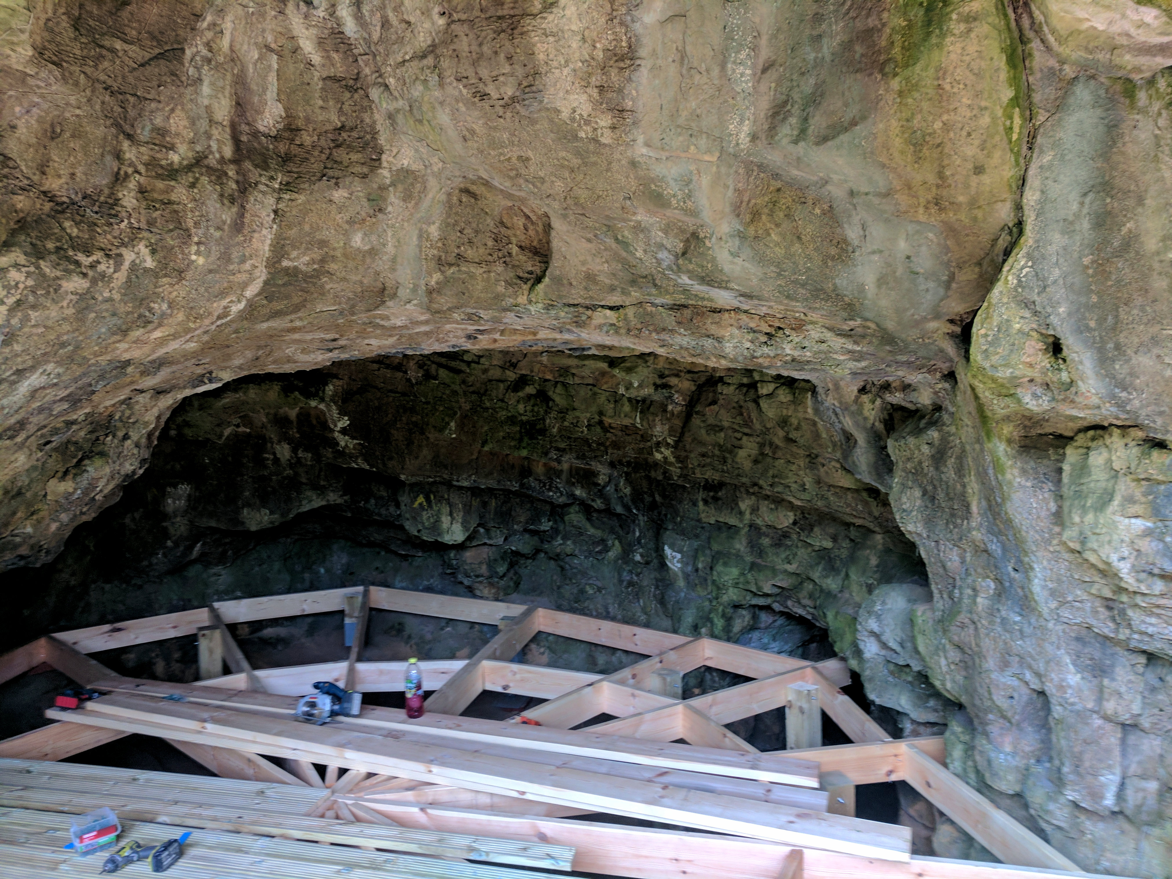 Mother Grundy's Parlour Cave, Creswell Crags, Palaeolithic and later prehistoric sites at Creswell Gorge, including Boat House Cave and Church Hole Cave Wikidata has entry Q17642924 with data related to this item.